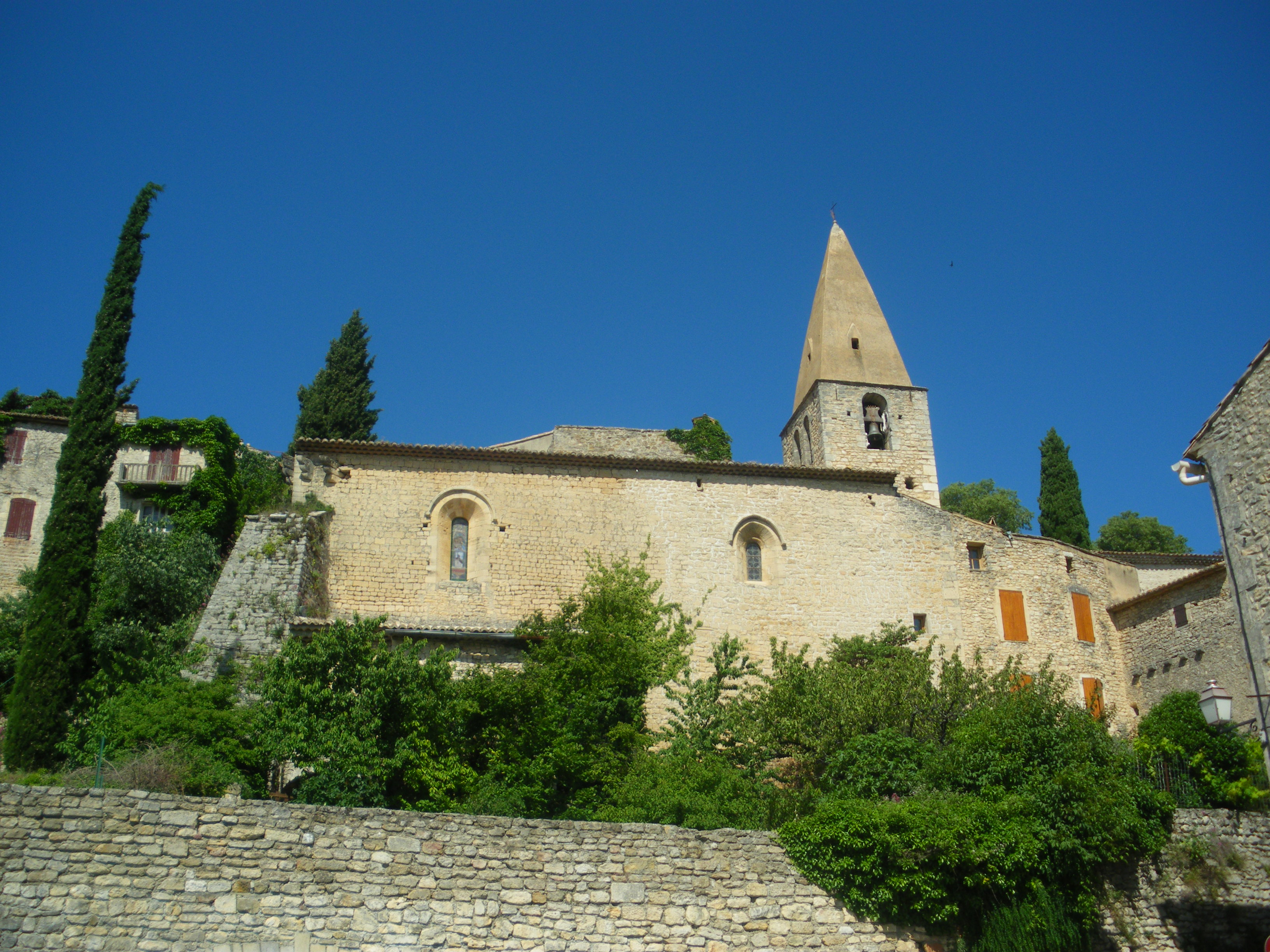 Saint Sauveur church, Crestet, Vaucluse